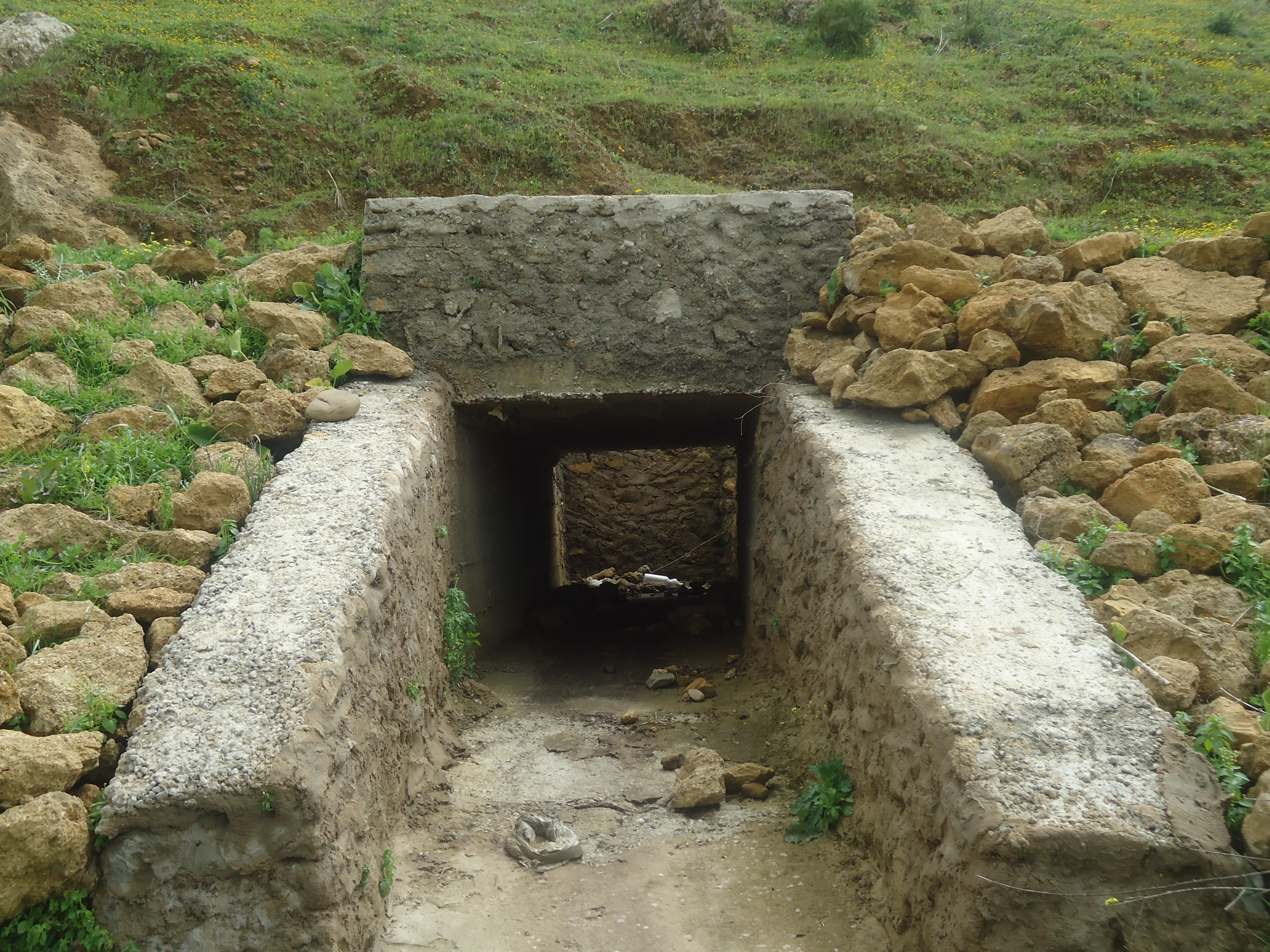 قنطرة أنشئت بدوار تاورضة بتمويل من جمعية تاورضة للتنمية البشرية